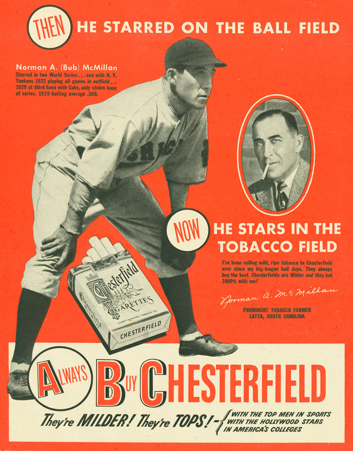 Bub McMillan as a baseball player in a cigarette ad for Chesterfield.